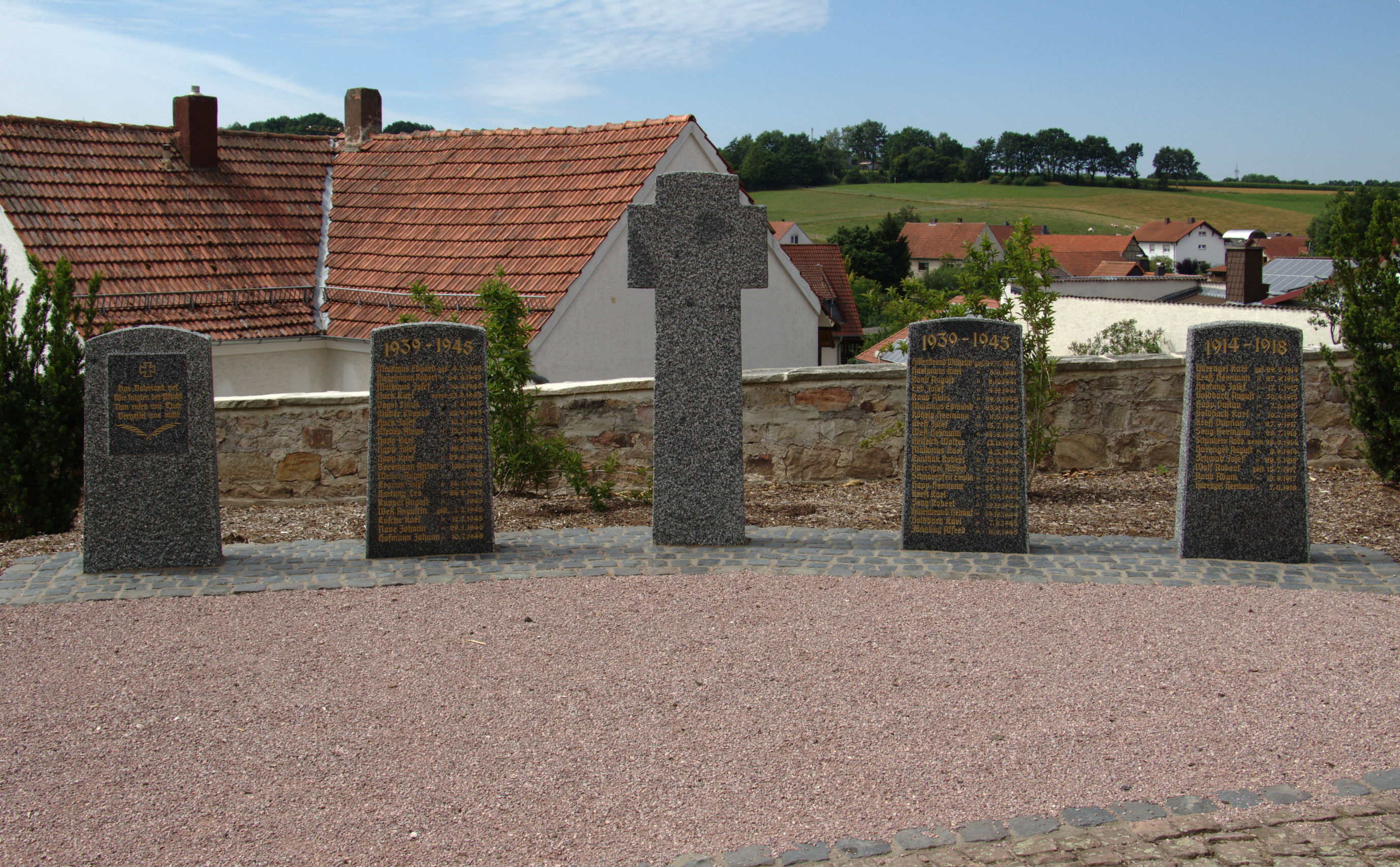 World war memorial next to Saints Cosmas and Damian church in Hattenhof, Neuhof, Hesse, Germany